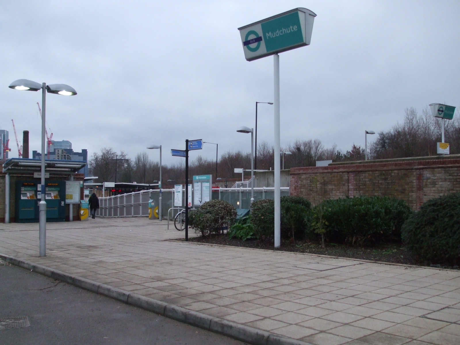 Mudchute DLR station western entrance